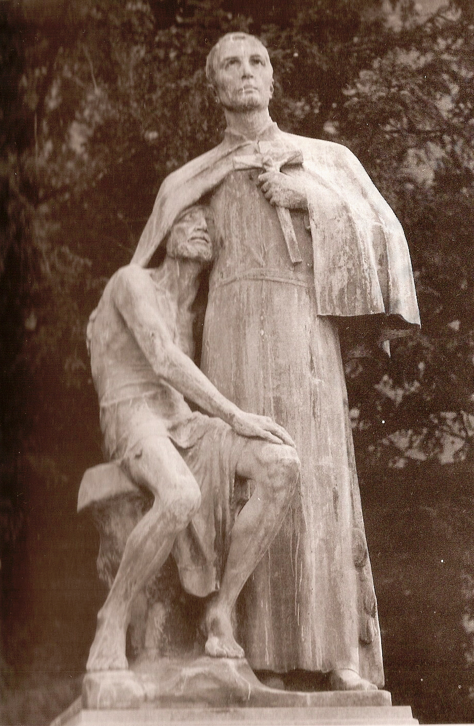 Statue of Damiaan De Veuster by Constantin Meuneur based on Armand Thiéry, Sint-Jacobskerk, Leuven, 1894